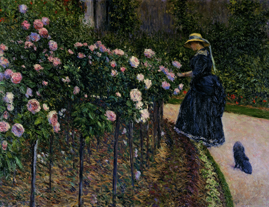 impressionistic painting of his garden, prominently featuring the rose cultivar 'La France'[1]